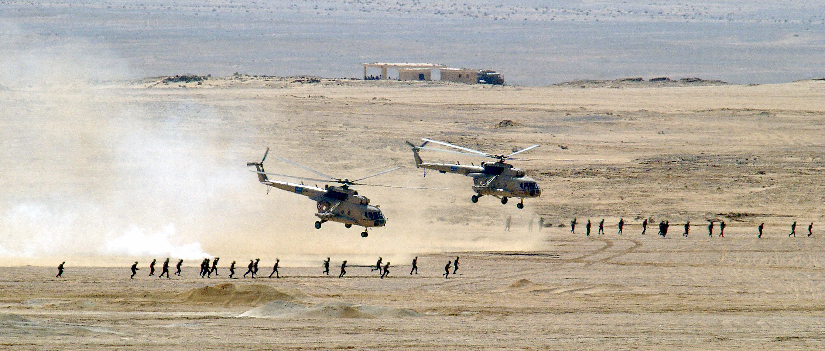 Two Soviet-made Egyptian Mi-8 Hip helicopters lift off after dropping of Egyptian Army Soldiers, at Mubarak Military City, as US, Spanish and Egyptian armed forces conduct amphibious assault operations during Exercise BRIGHT STAR 01/02. BRIGHT STAR 01/02 is a multinational exercise involving more than 74,000 troops from 44 countries that enhances regional stability and military-to-military cooperation among our key allies, and our regional partners. It prepares US Central Command to rapidly deploy and employ the forces needed to deter aggressors and, if necessary, fight and win side-by-side with our allies and regional partners.